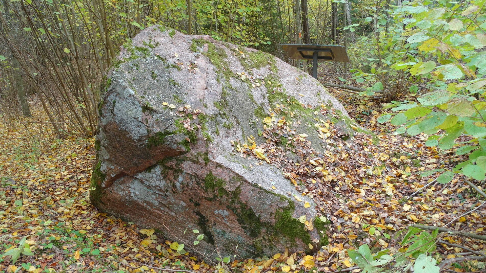 Red Stone, Alytus district, Lithuania